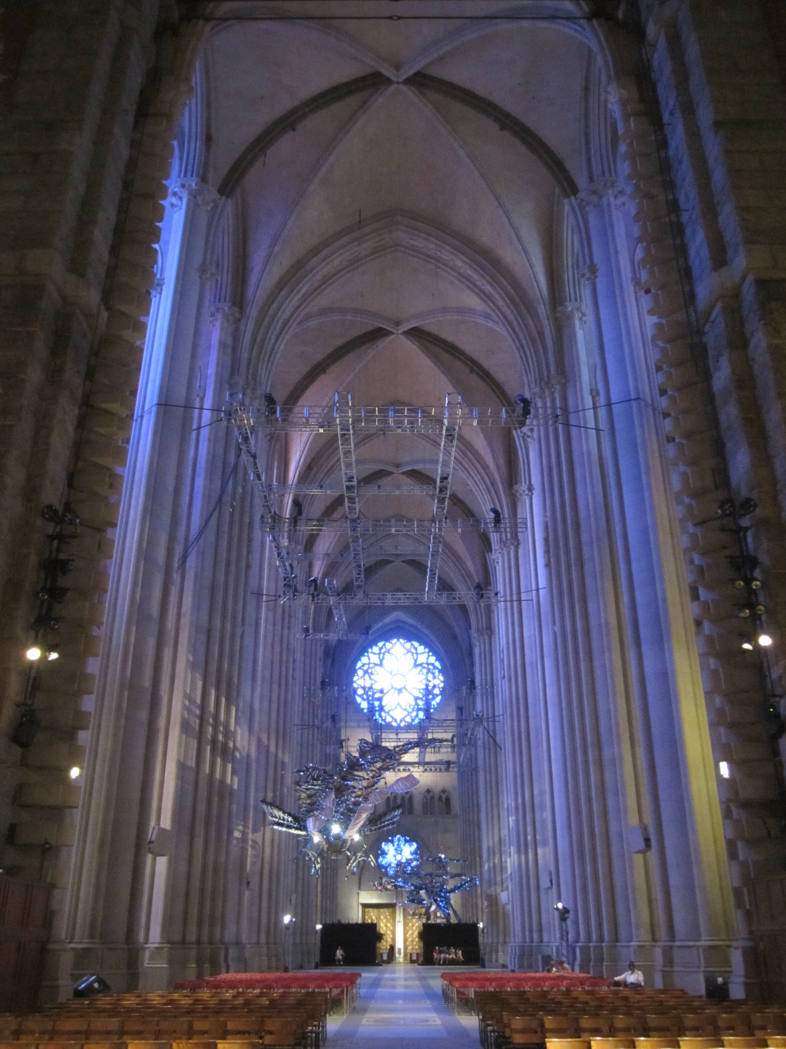 Cathedral of Saint John the Divine in New York City in June 2014